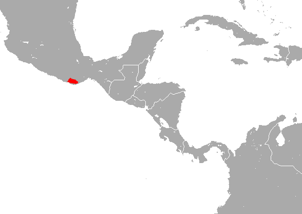 Phillips' Smal-eared Shrew (Cryptotis phillipsii) range